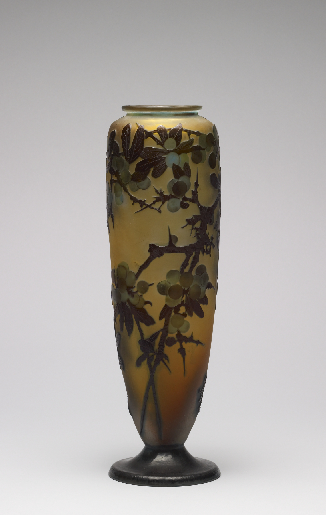 Inspired by the Chinese glass he had seen during a trip to Berlin, Emile Gallé began to work with opaque colored glass in 1884. Within four years, he developed a technique of working with cased (layered) glass in which Art Nouveau or Japanese-inspired designs were etched through the outer layers with acid to create inexpensively a carved cameo effect. Most of Gallé's pieces were mass-produced at the glasshouse of Burgum and Schverer in the town of Meisenthal in eastern France. Production of his works continued there after his death until World War I.